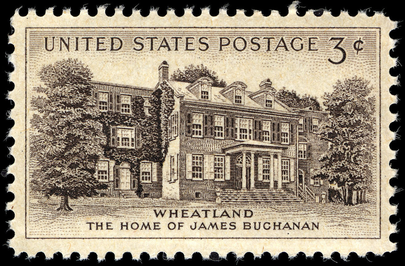 Three-cent postage stamp depicting Wheatland, the home of James Buchanan.